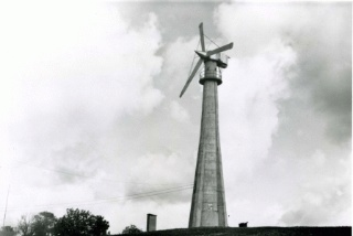 Pioneering wind turbine at the Danish island of Bogø, built in 1942, shown here with a modernized turbine from 1952.